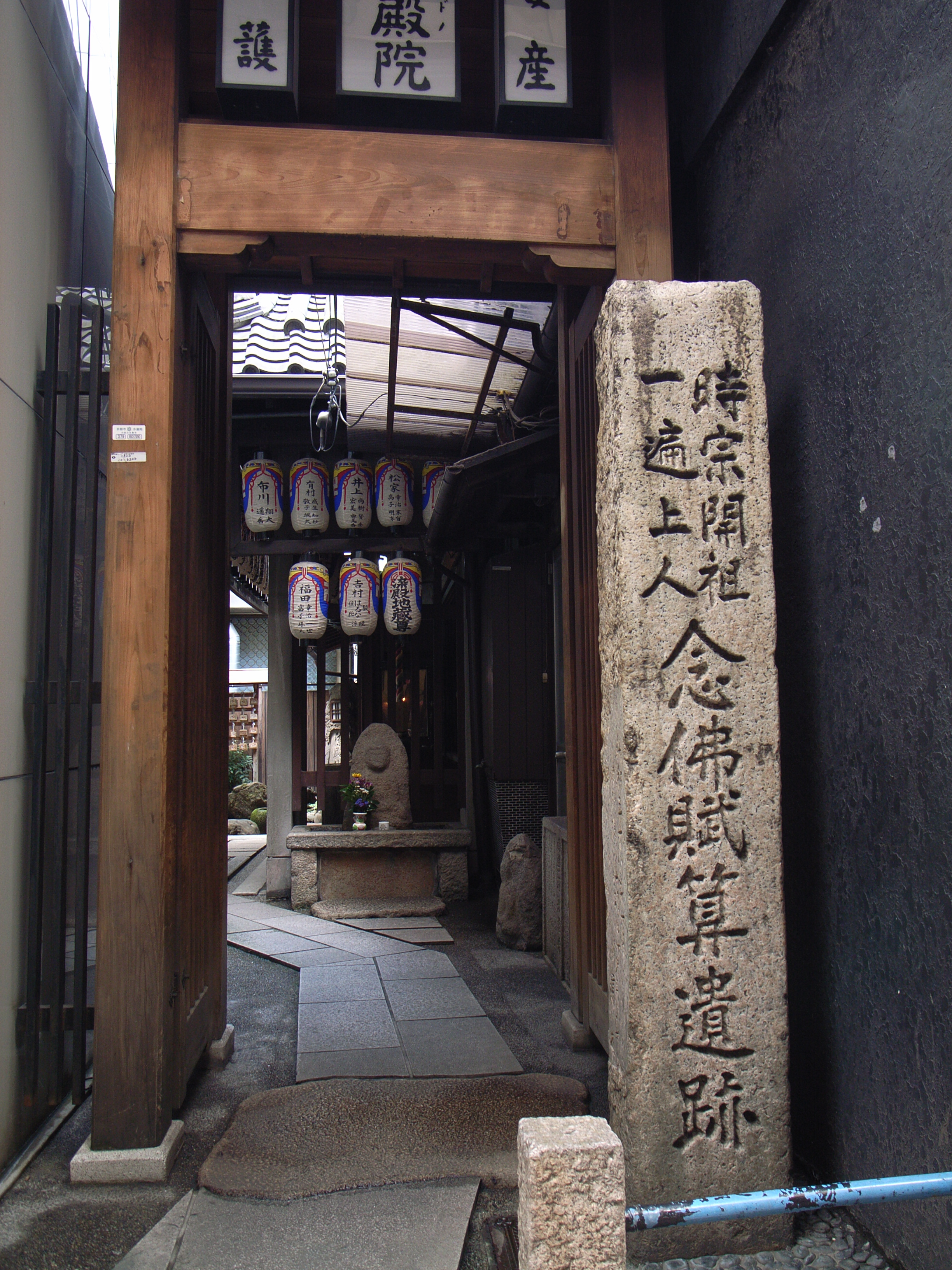 Temple of Ksitigarbha (jizo)